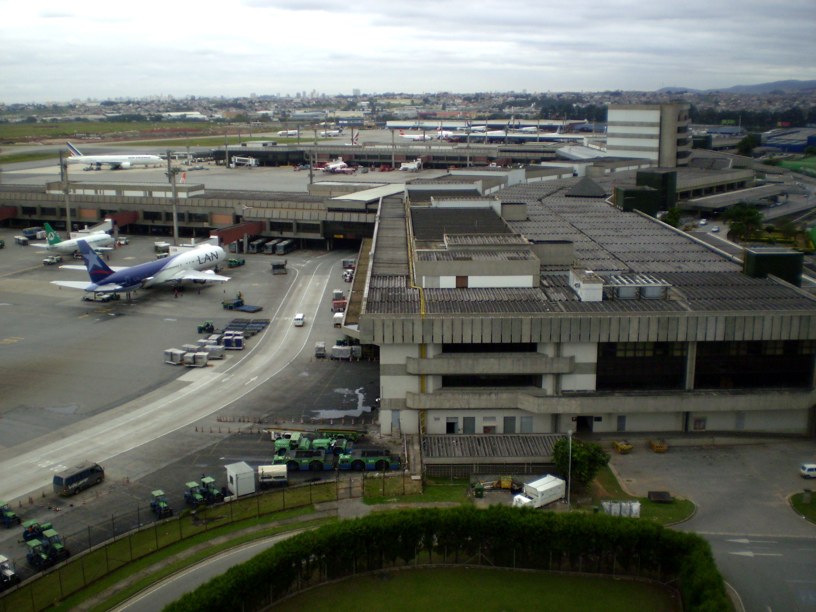 Panoramic view of São Paulo/Guarulhos International Airport.